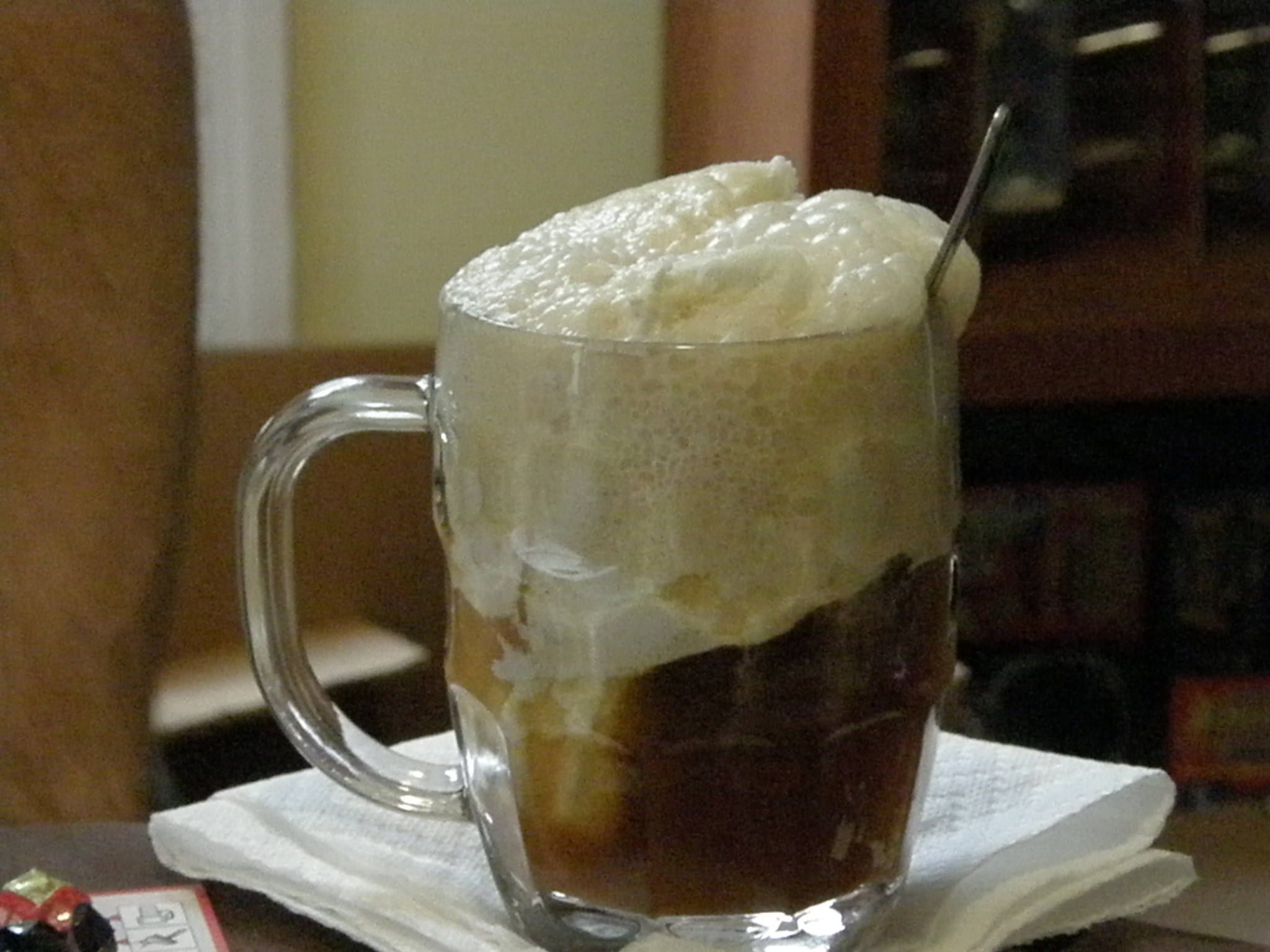 A beer float made with Breyers vanilla ice cream and Samuel Adams beer